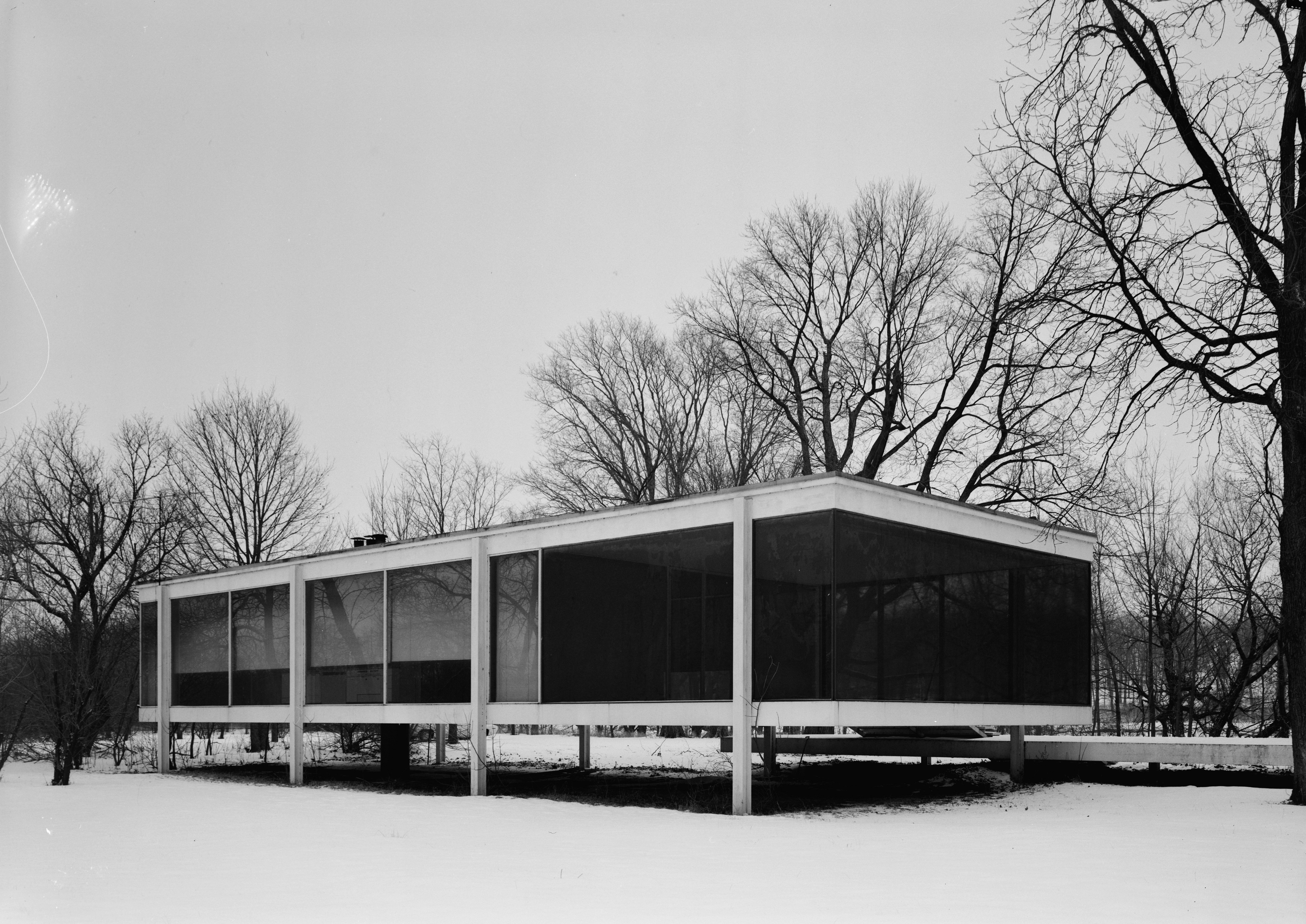 Edith Farnsworth House, Fox River & Milbrook Roads, Plano vicinity, Kendall County, Illinois - north and west elevations. Designed by Ludwig Mies van der Rohe